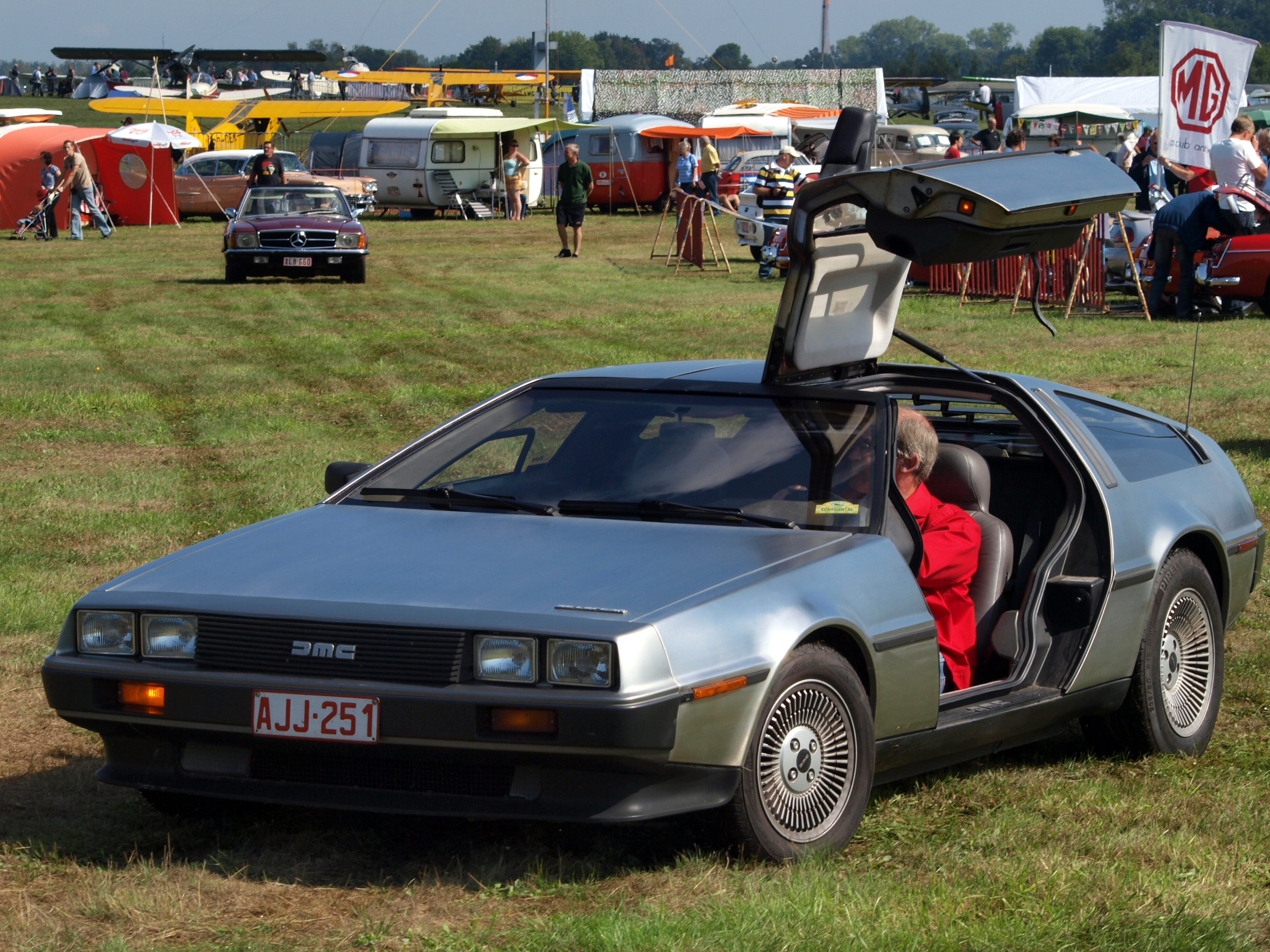 Photographed at The International Oldtimer Fly and Drive In 2010, Schaffen-Diest, Belgium.